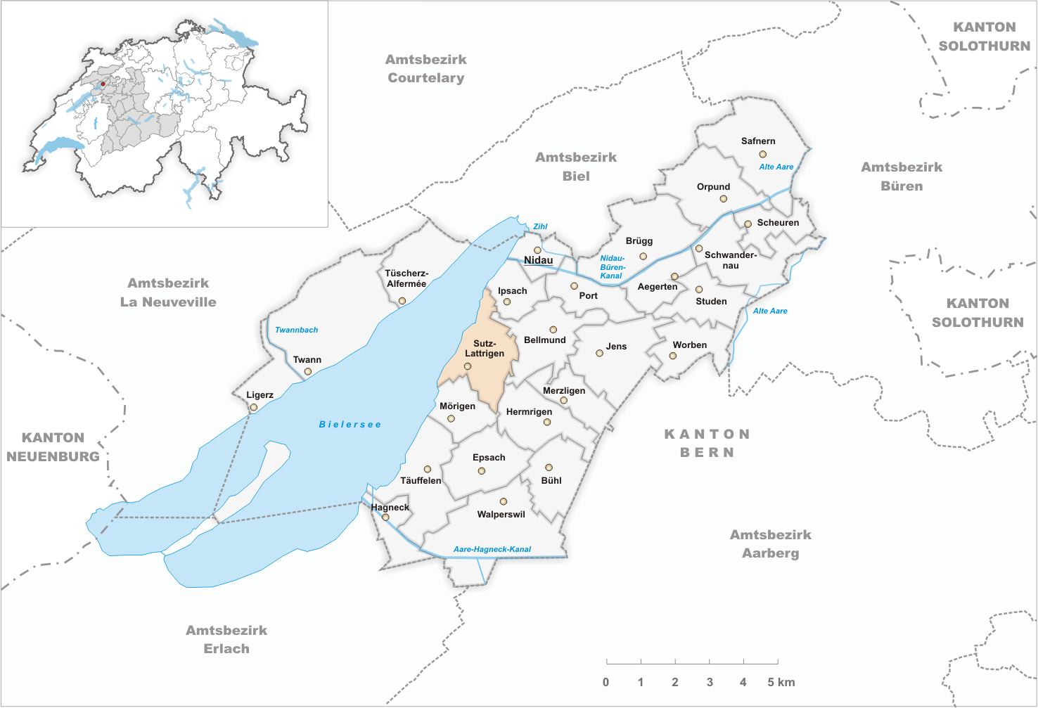 Municipality Sutz-Lattrigen